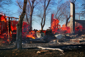 Photograph from Christian Patterson's Out There series